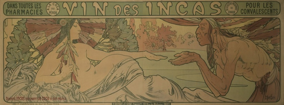 Alphonse Mucha. 1897 Poster for 'Vin des Incas' lithograph 212 x 77 cm